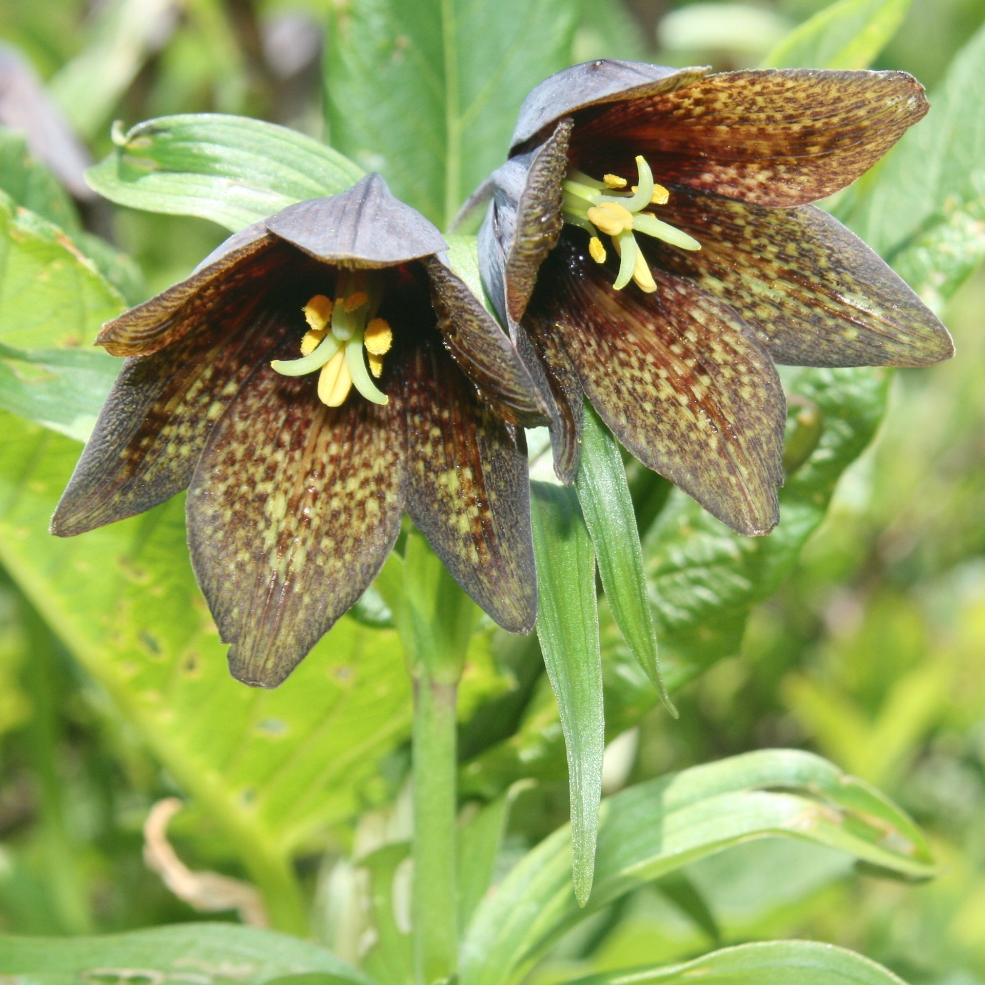 Fritillaria camschatcensis ssp alpina seen in Mount Haku